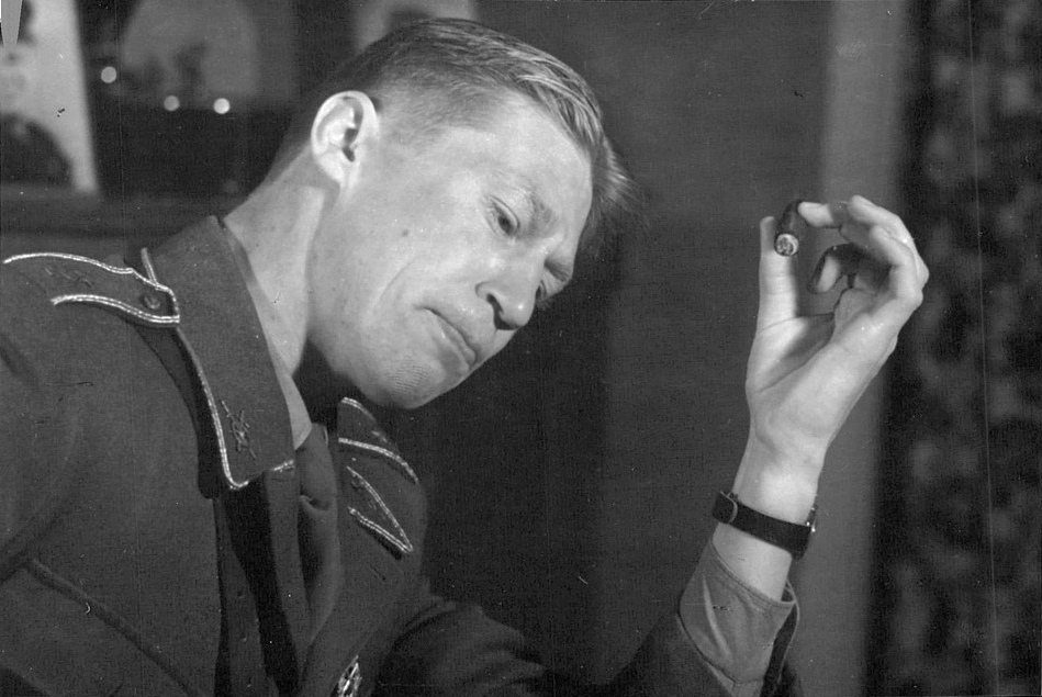 Anders Ek as Löfgren in the play "Krigsmans erinran" (Oath of allegiance) on Gothenburg City Theatre.